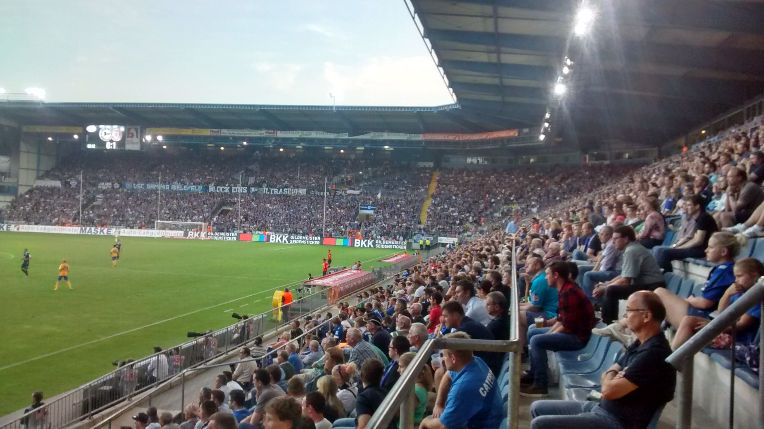 The visitors look excited on the lawn